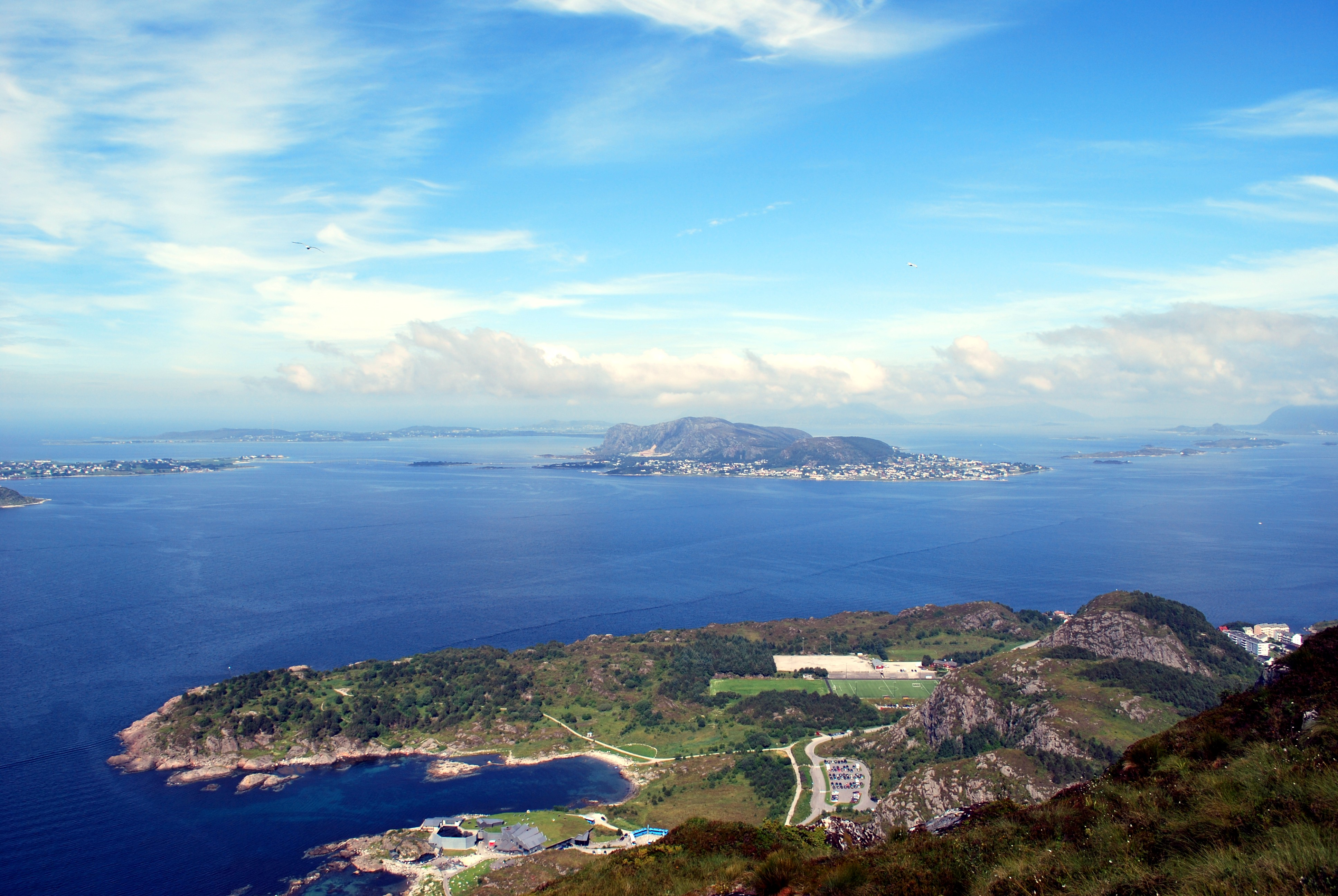 Tueneset with Atlanterhavsparken, Ålesund, and Valderhaugfjorden and Valderøya, Giske kommune, Norway.